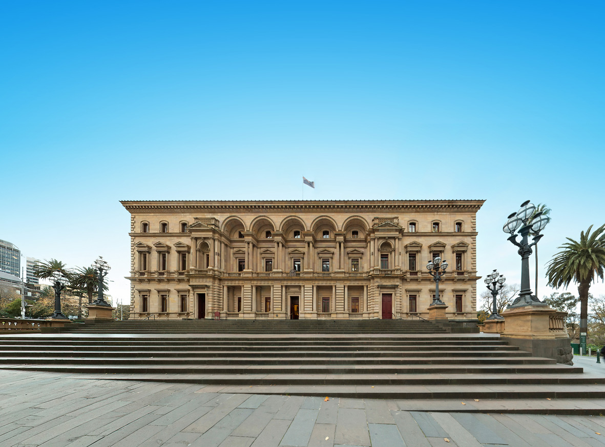 The Front of the Old Treasury Building, Melbourne, Australia. Built in 1858-62.